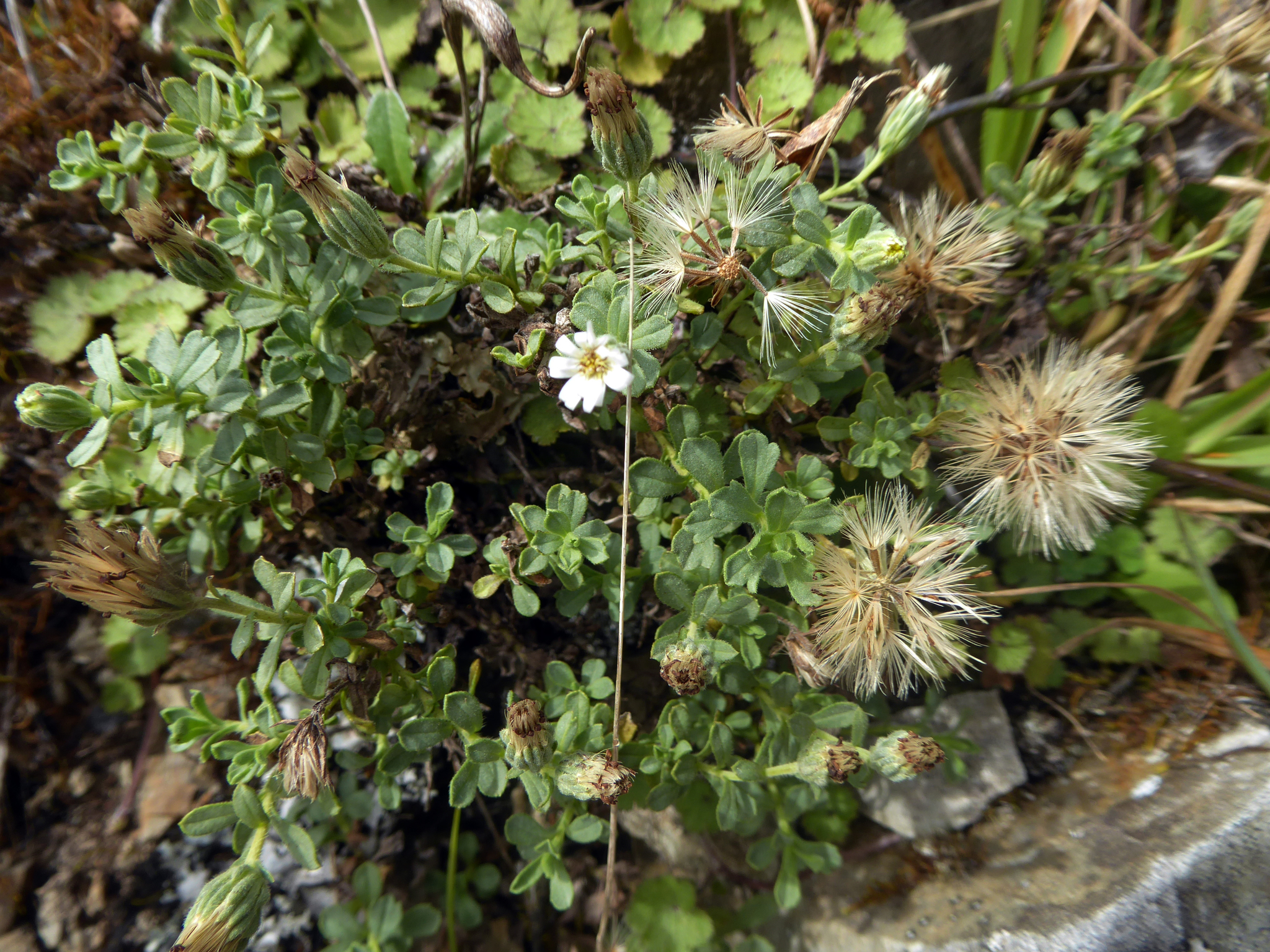 White Fuzzweed Vittadinia australis by Peter de Lange